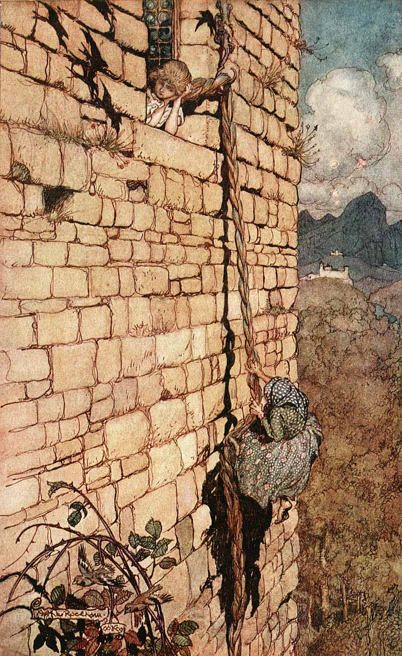 illustration to a fairy tale of brothers the Grimm "Rapunzel" (Arthur Rackham)